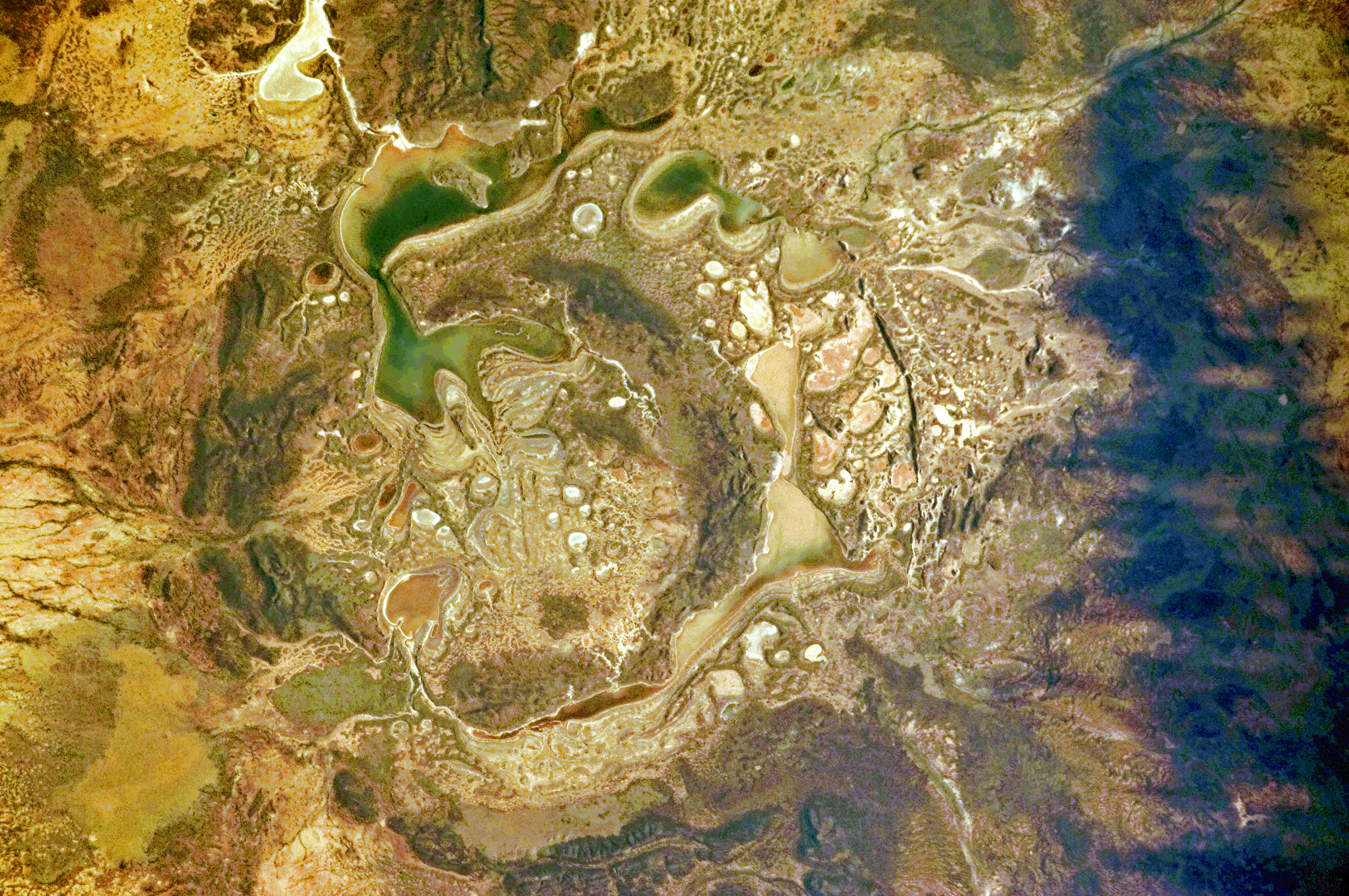 The Shoemaker impact site is approximately 30 kilometres in diameter and clearly defined by concentric ring structures formed in sedimentary rocks (brown to dark brown, image centre). Several saline and ephemeral lakes—Nabberu, Teague, Shoemaker, and numerous smaller ponds—occupy the land surface between the ring structures. Differences in colour result from both water depth and from suspended sediments, with some bright salt crusts visible around the edges of smaller ponds (image centre).